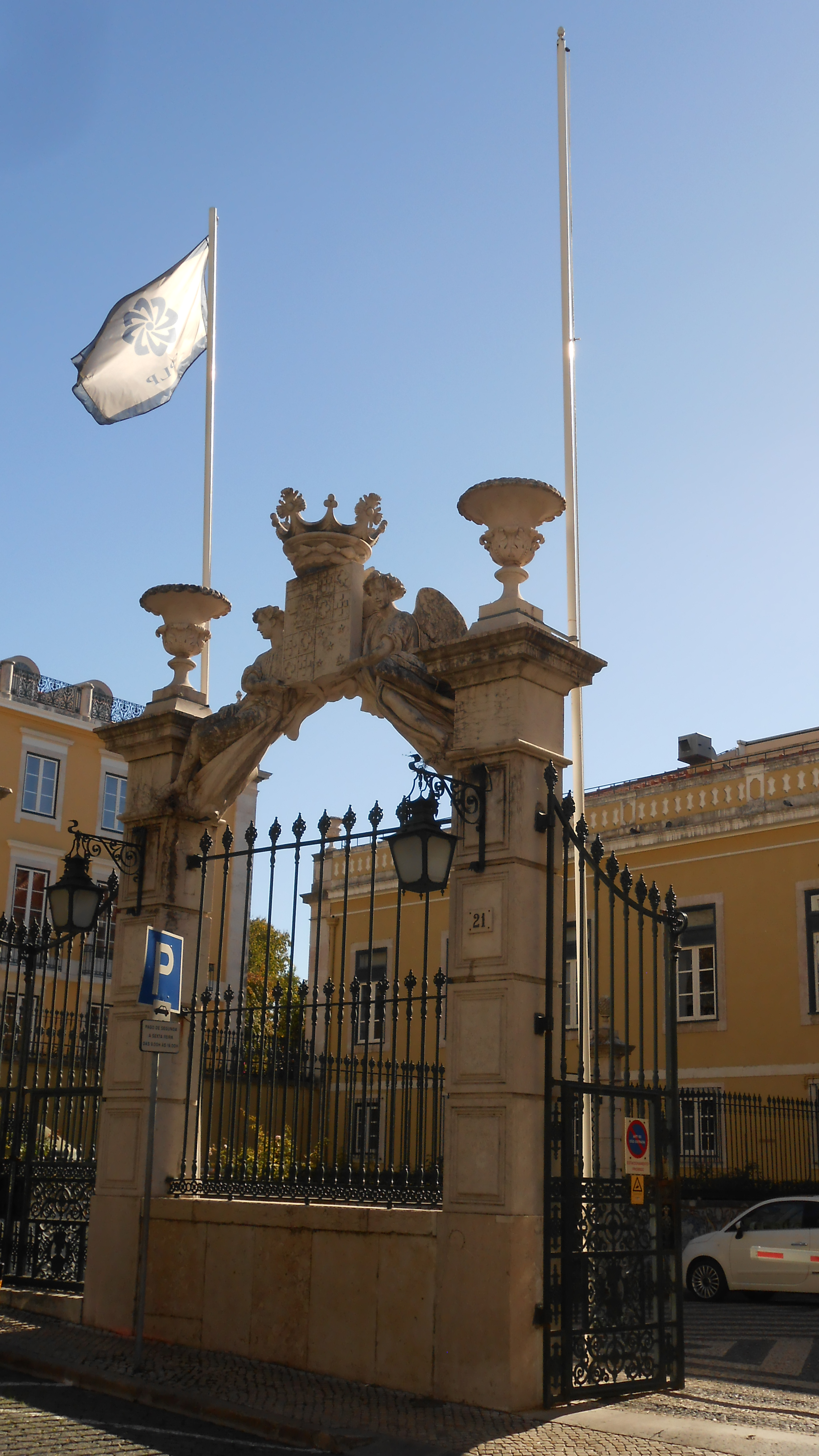 The Palácio Conde Penafiel in Lisbon, built in the early 17th century, became the headquarter of the Community of Portuguese Language Countries (Comunidade dos Países de Língua Portuguesa, CPLP) in 2011.